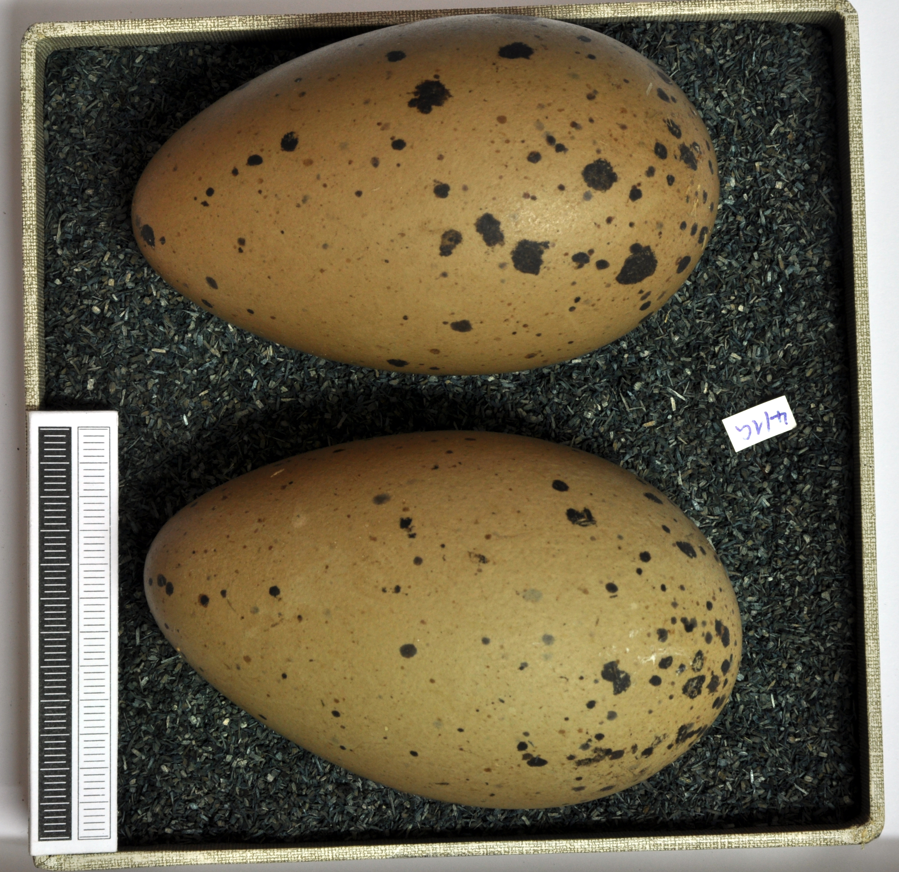 Black-throated loon Gavia arctica, egg, Coll. Museum Wiesbaden, Origin: Värmlands Län, Sweden, 31.05.1975, leg. W. Abelmann